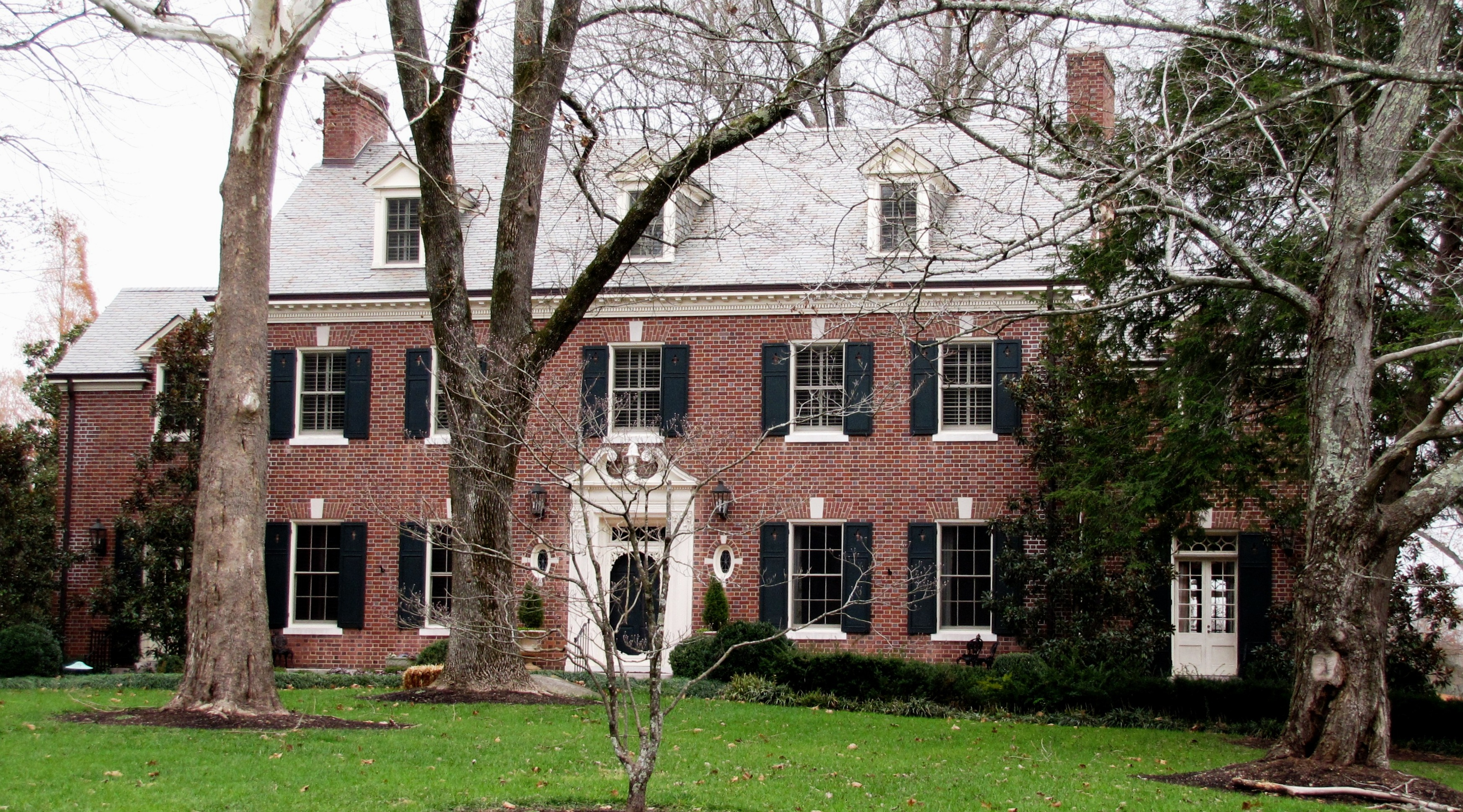 House at 940 Cherokee Boulevard in the Sequoyah Hills neighborhood of Knoxville, Tennessee, USA. The 940 lot was the only Talahi lot sold by developer Robert Foust before his financial collapse and subsequent suicide. The house was built by Walter S. Nash in the 1930s. The University of Tennessee used this house as its presidential mansion from 1960 until 2009.